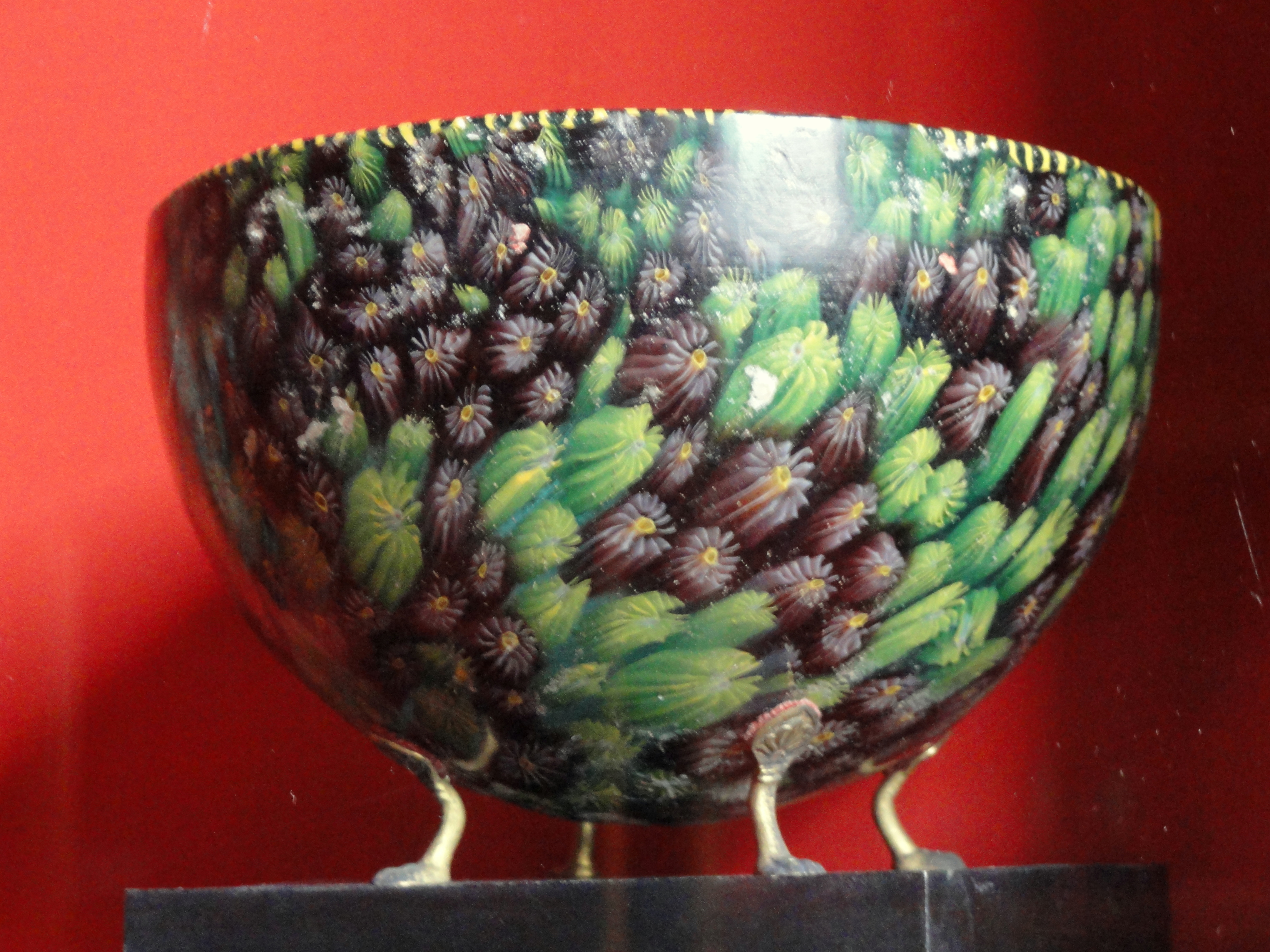 Exhibit in the antiquity collection of Thorvaldsens Museum, Copenhagen, Denmark. This artwork is now in the public domain because the artist died more than 70 years ago.